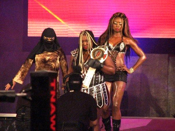 The Kongtourage at Final Resolution 2008 (Before Sojourner Bolt joined)